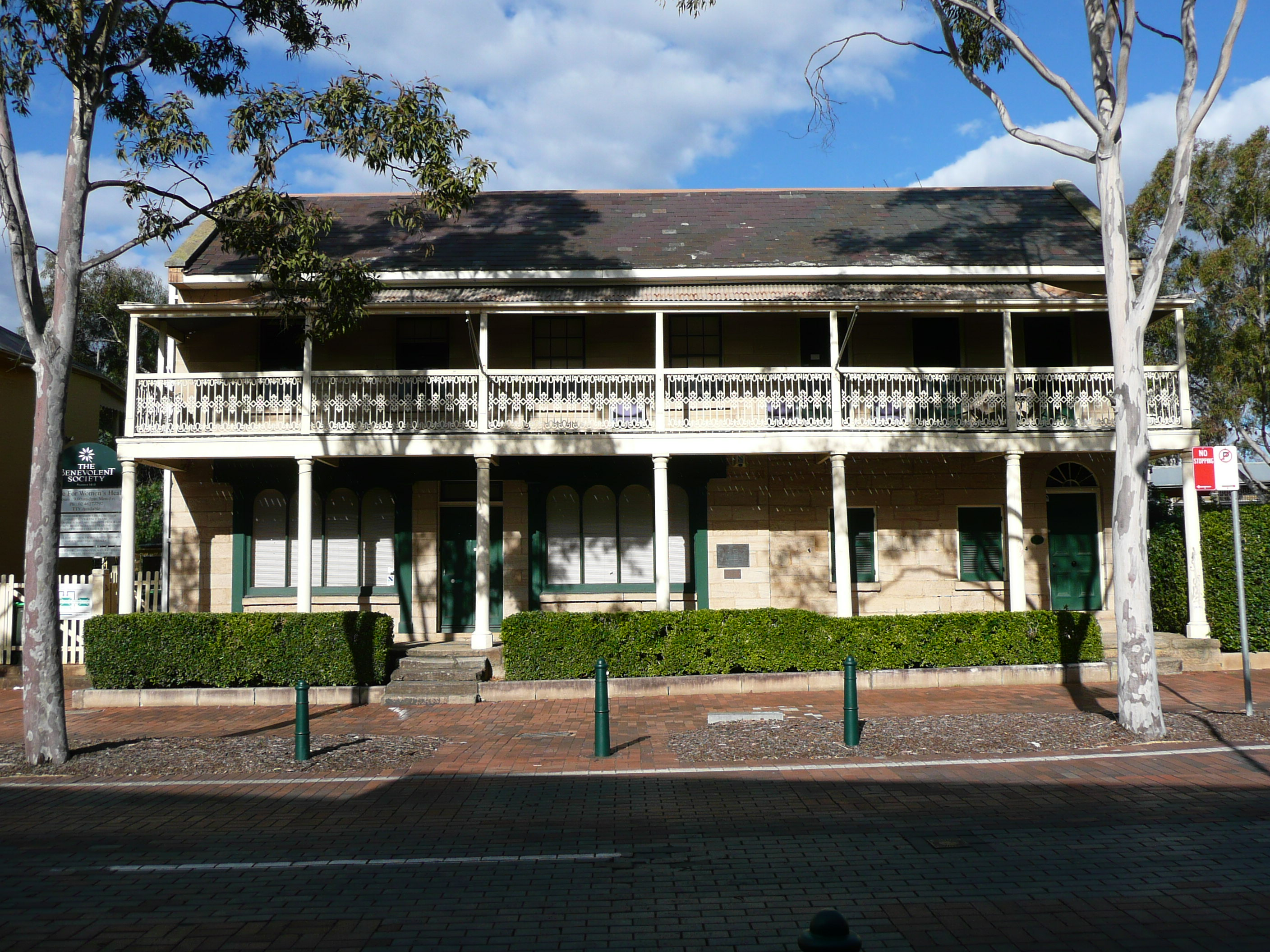 home, sydney